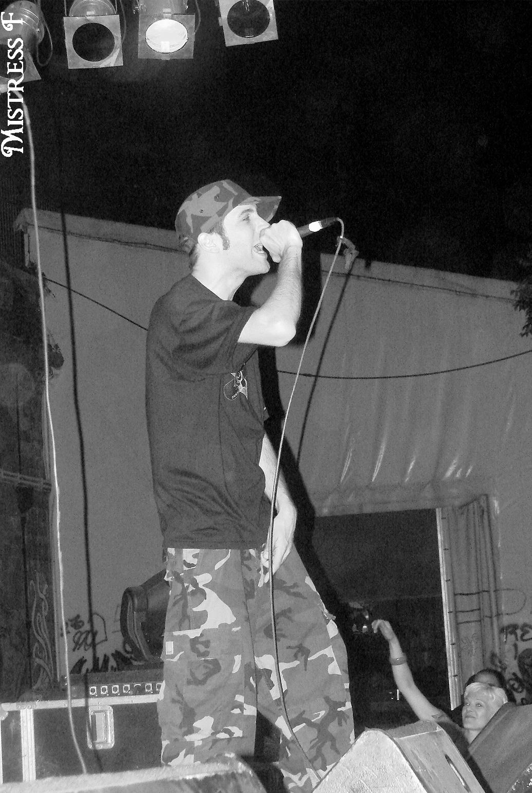 The italian rapper Danno